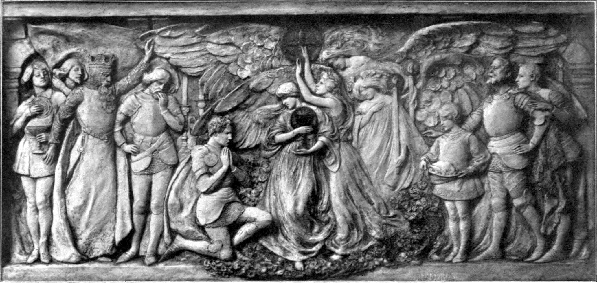 Sir Perceval and the vision of the Holy Grail